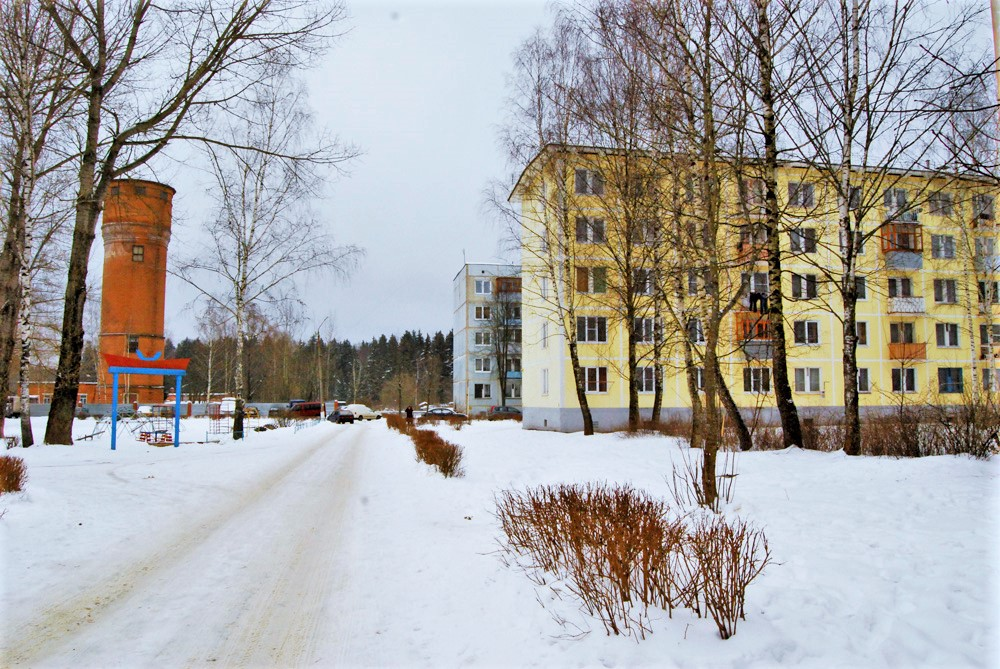 11, Molodyozhny